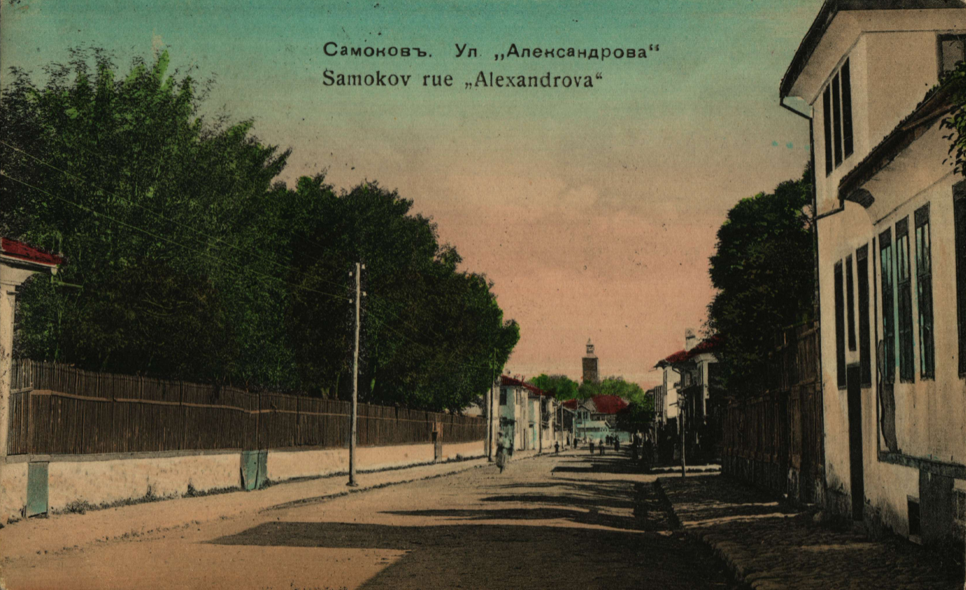 Samokov, Bulgaria